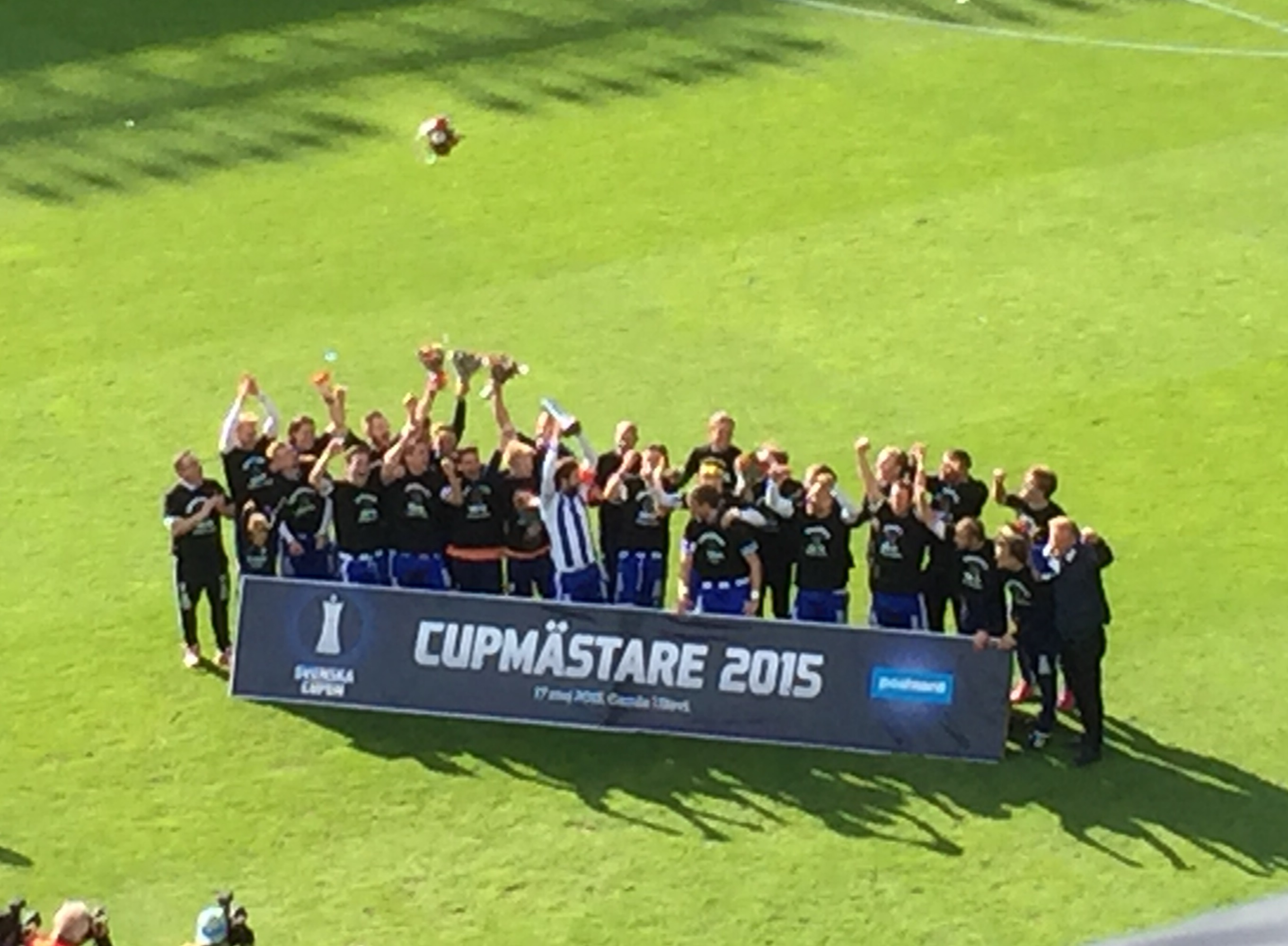 IFK Gothenburg, the winner of 2015 Svenska Cupen Final.